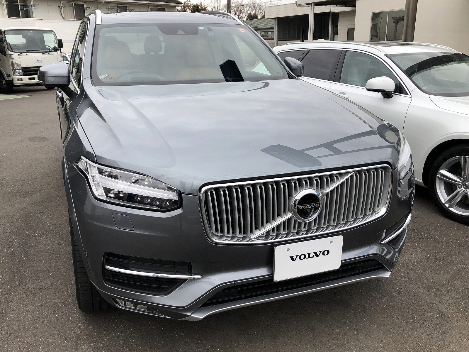 VOLVO XC90 T6 AWD FRONT(JPN).Photographed in Japan.